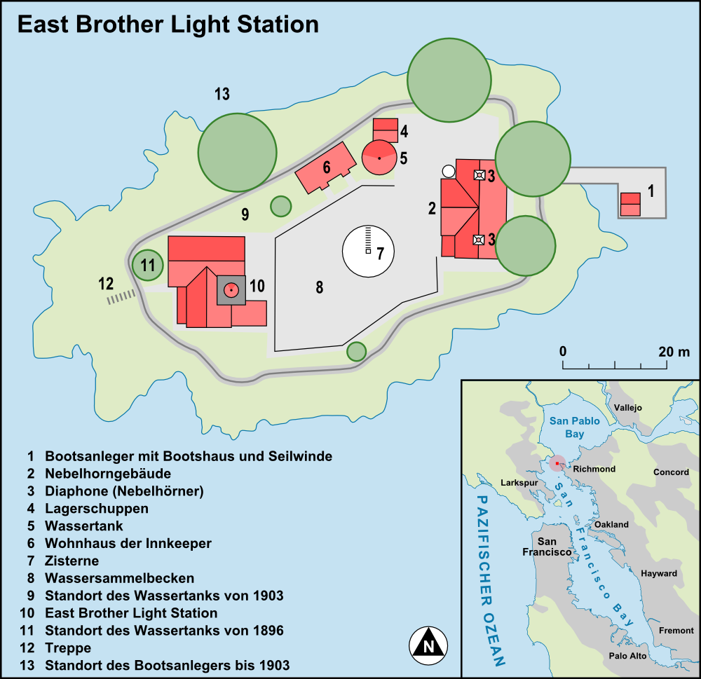 Map of East Brother Light Station